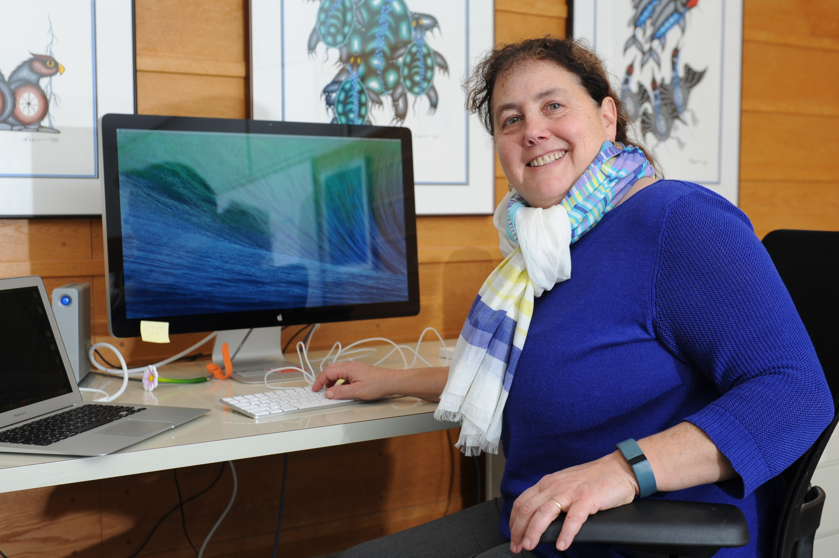 Stefi Baum at her desk wearing a blue shirt, scarf and there is a computer behind her.